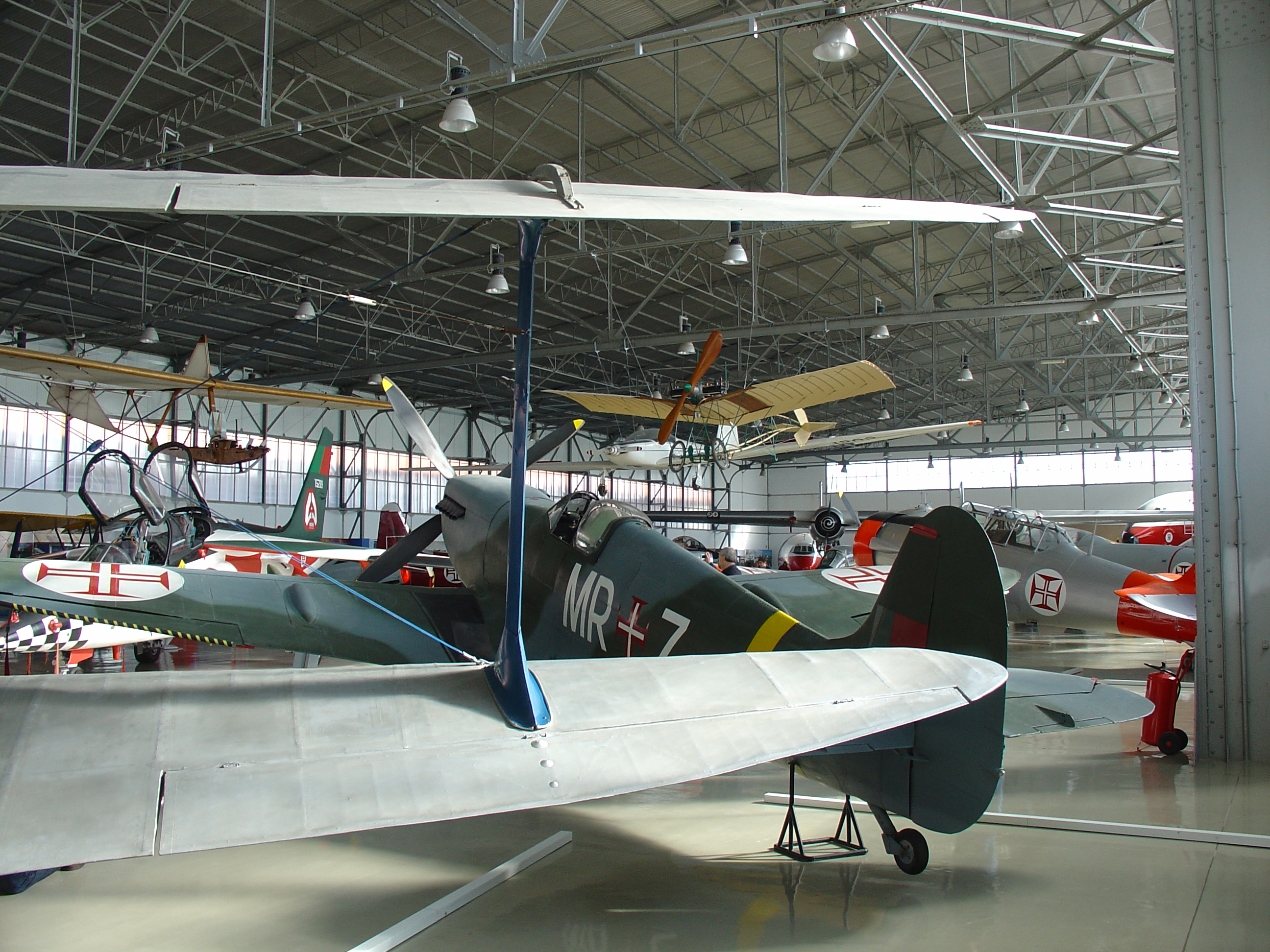 Supermarine Spitfire in the Museu do Ar